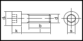 Steel screw ISO 4762